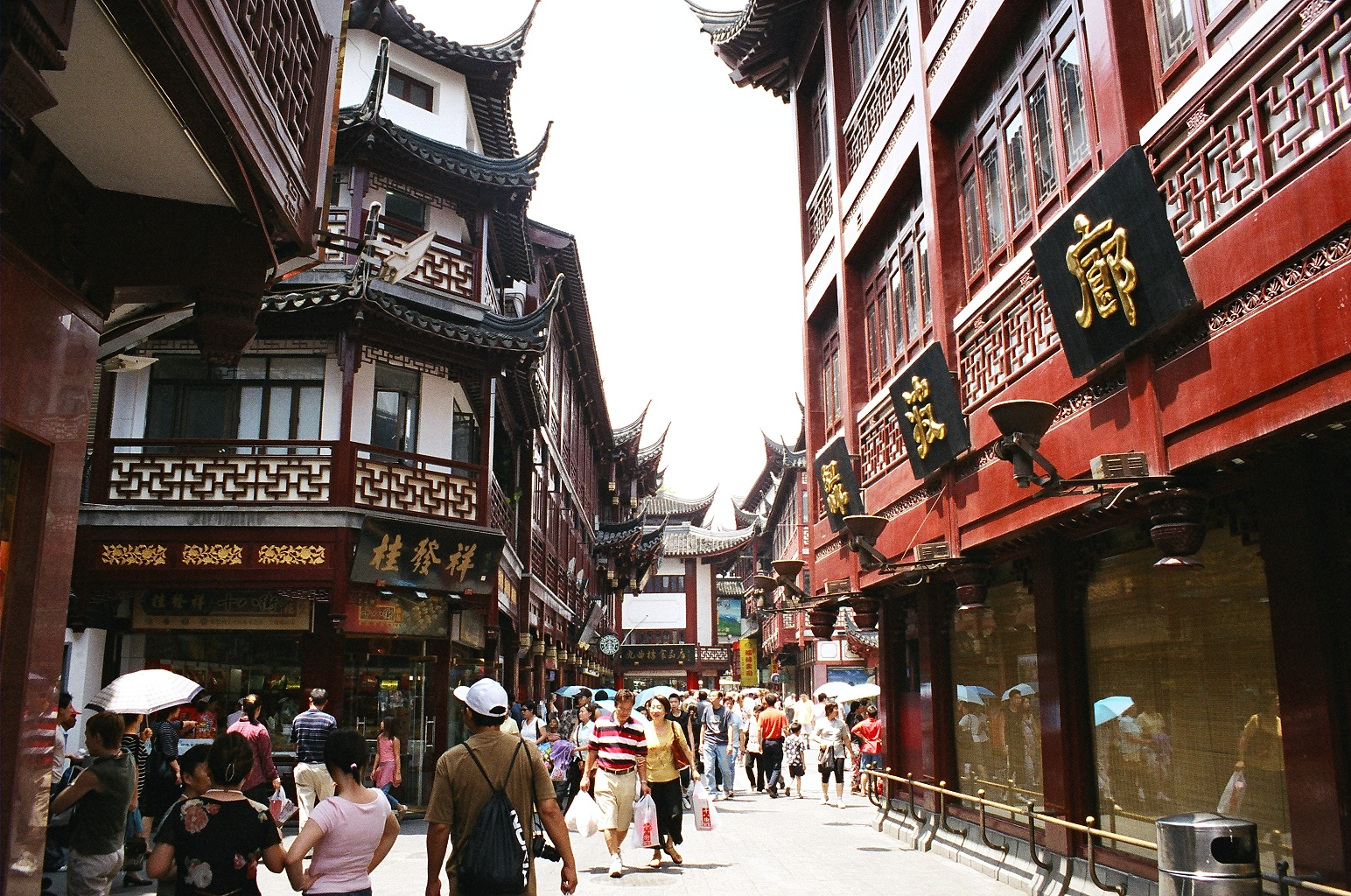 The Chenghuang Miao (City God Temple) in Shanghai